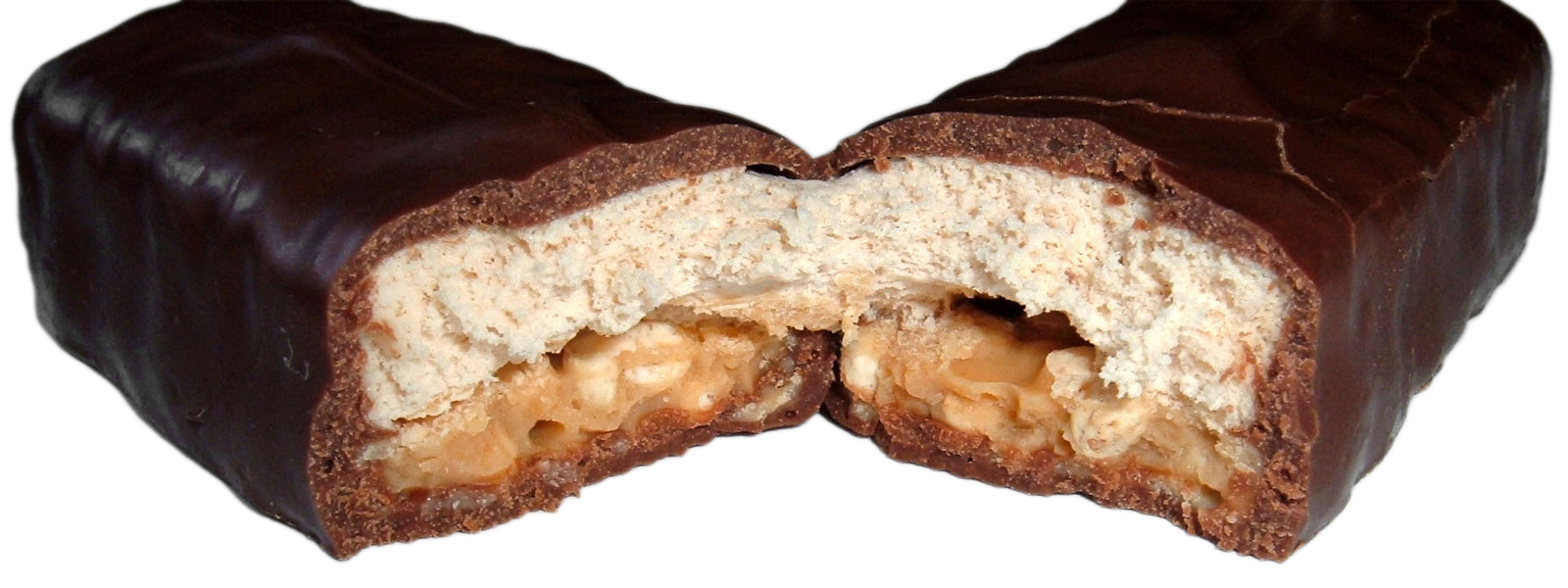 Hershey's S'mores barPurchased March 2005 in Atlanta, GA, USA